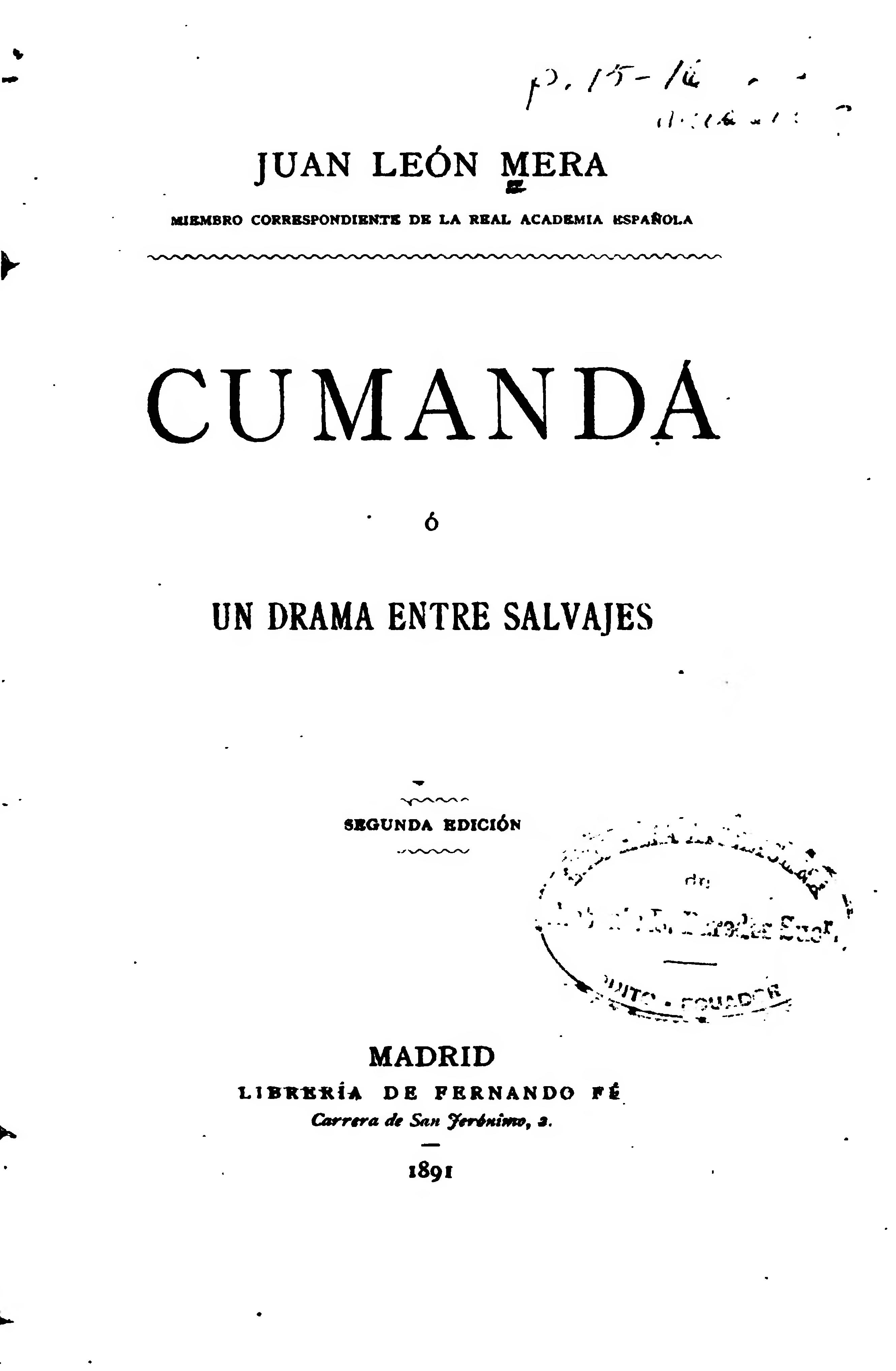 Second edition cover of Cumanda